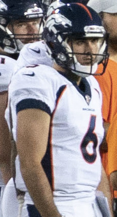 Broncos at Redskins 8/24/18